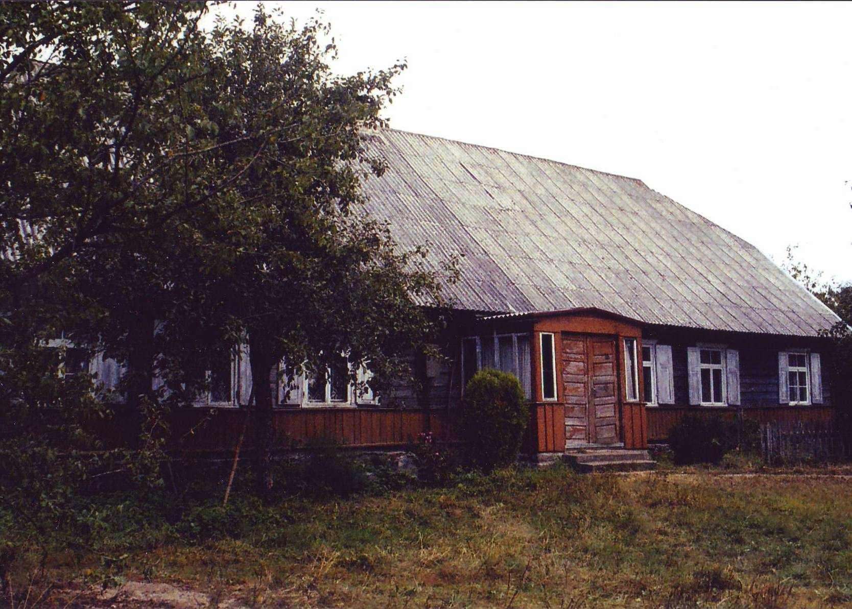 Jakštaičiai village, Kretinga district, Lithuania